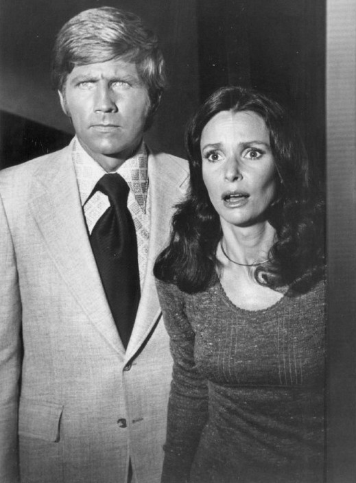 Photo of Gary Collins and Susan Strasberg from the television program The Sixth Sense.